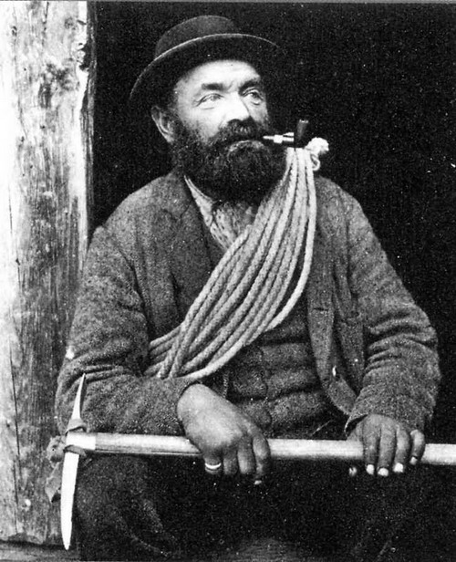 Burgener Alexandеr